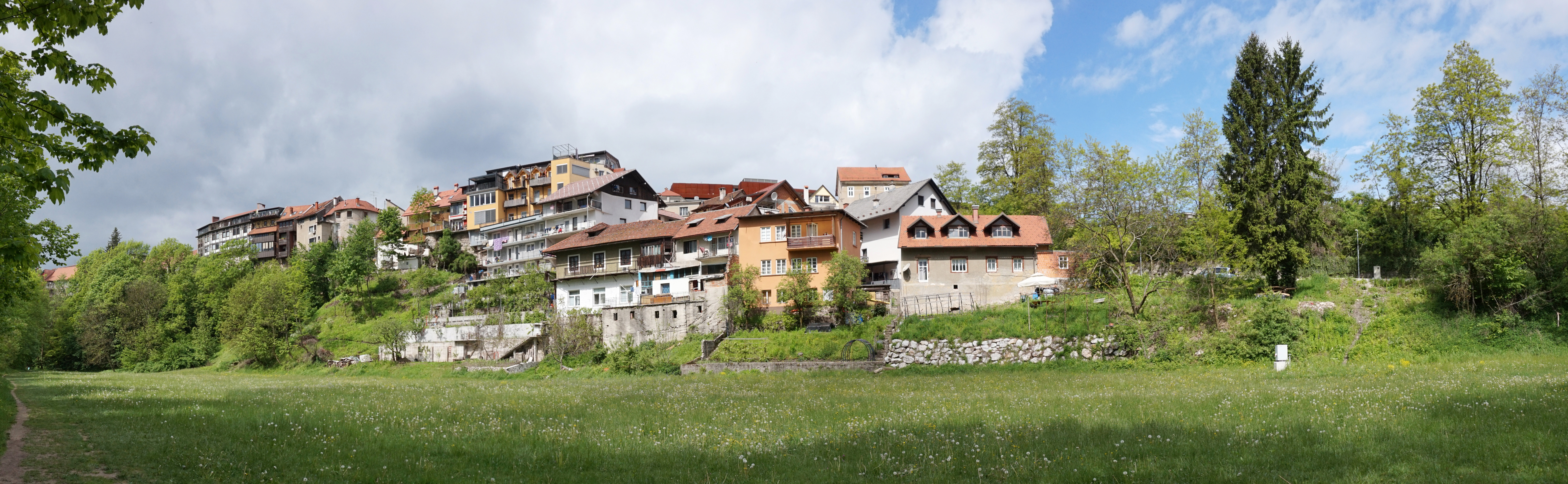 Buildings in Kranj, Slovenia.This photograph was taken with a Sony ILCE-5000